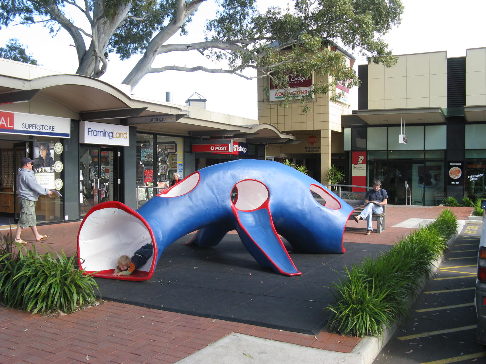 The famous and popular Mitcham Whale, restored and re-installed at Mitcham Square Shopping Centre.